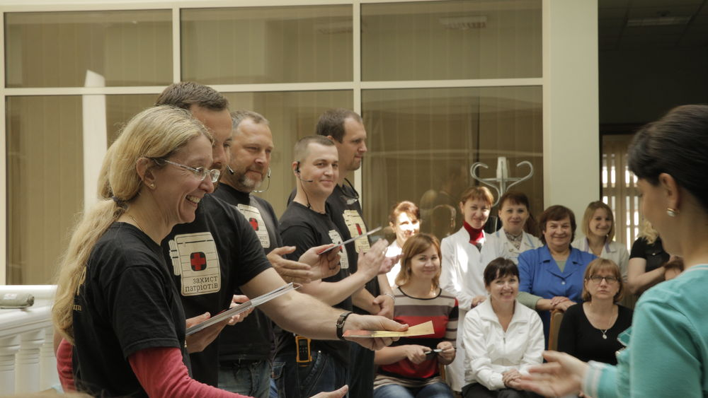 «Захист Патріотів»: навчання цивільних - 1